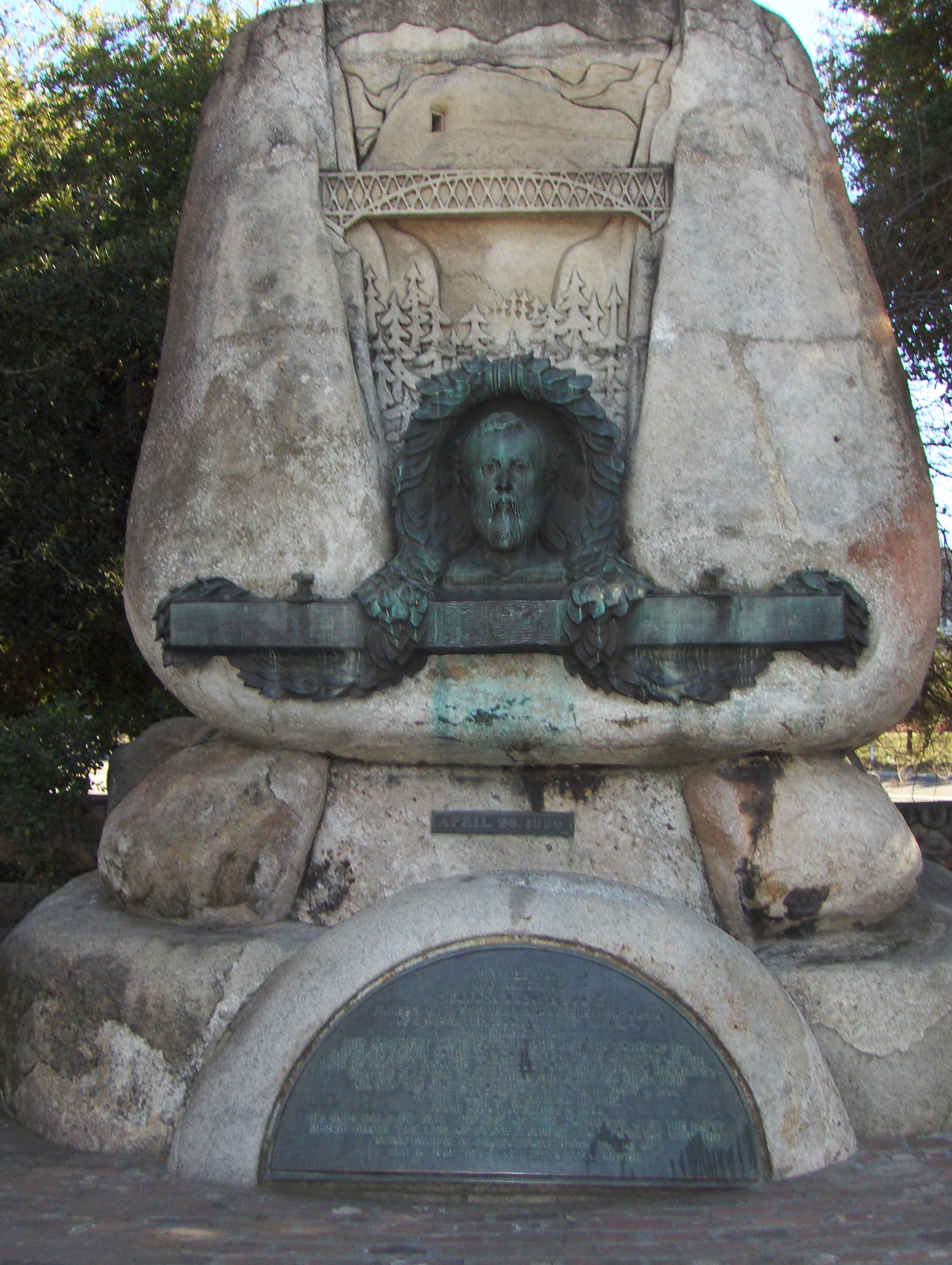 Theodore Judah monument in Old Sacramento